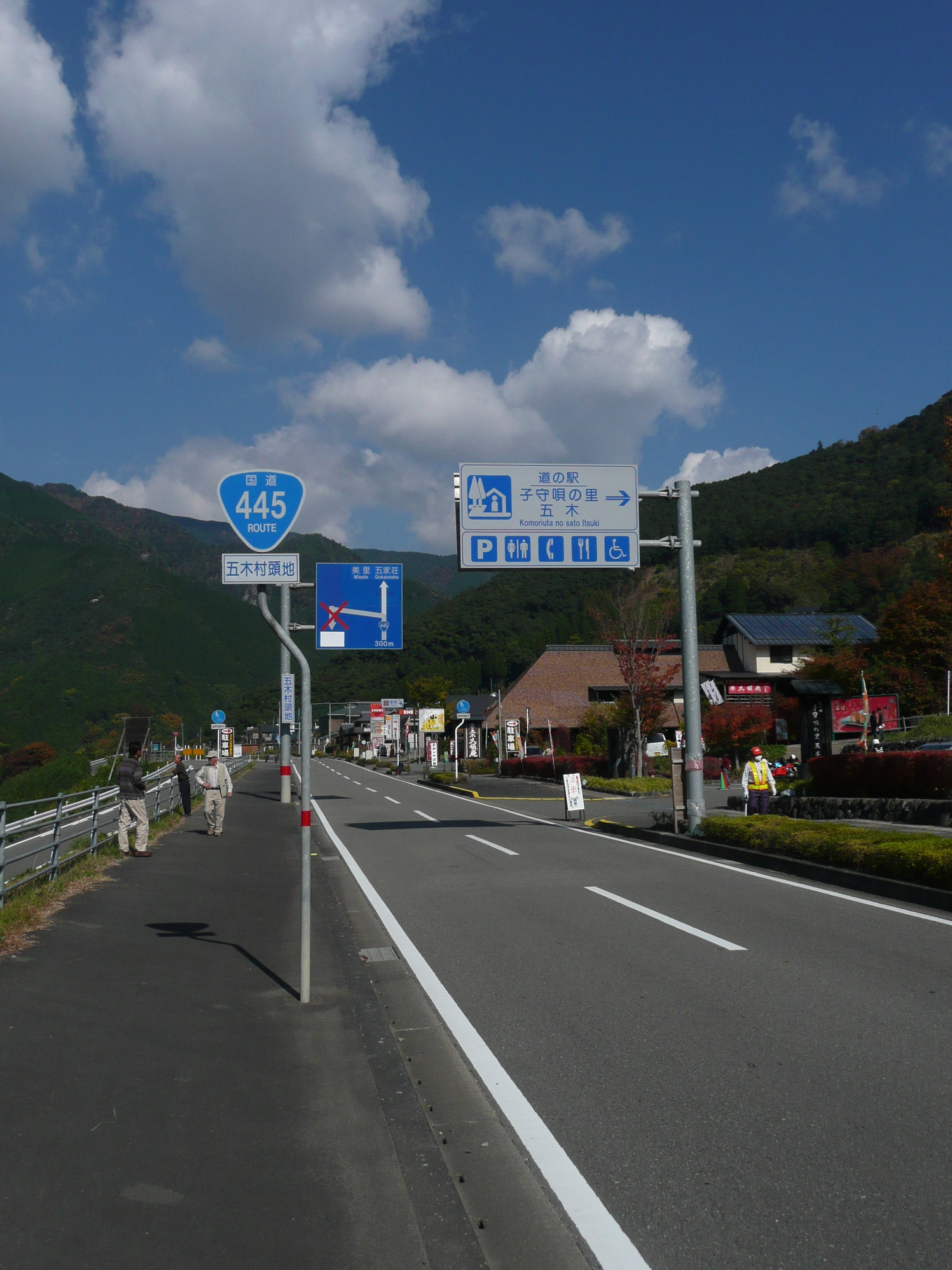 National Route 445 - Toji, Itsuki Village, Kumamoto Prefecture, Japan.